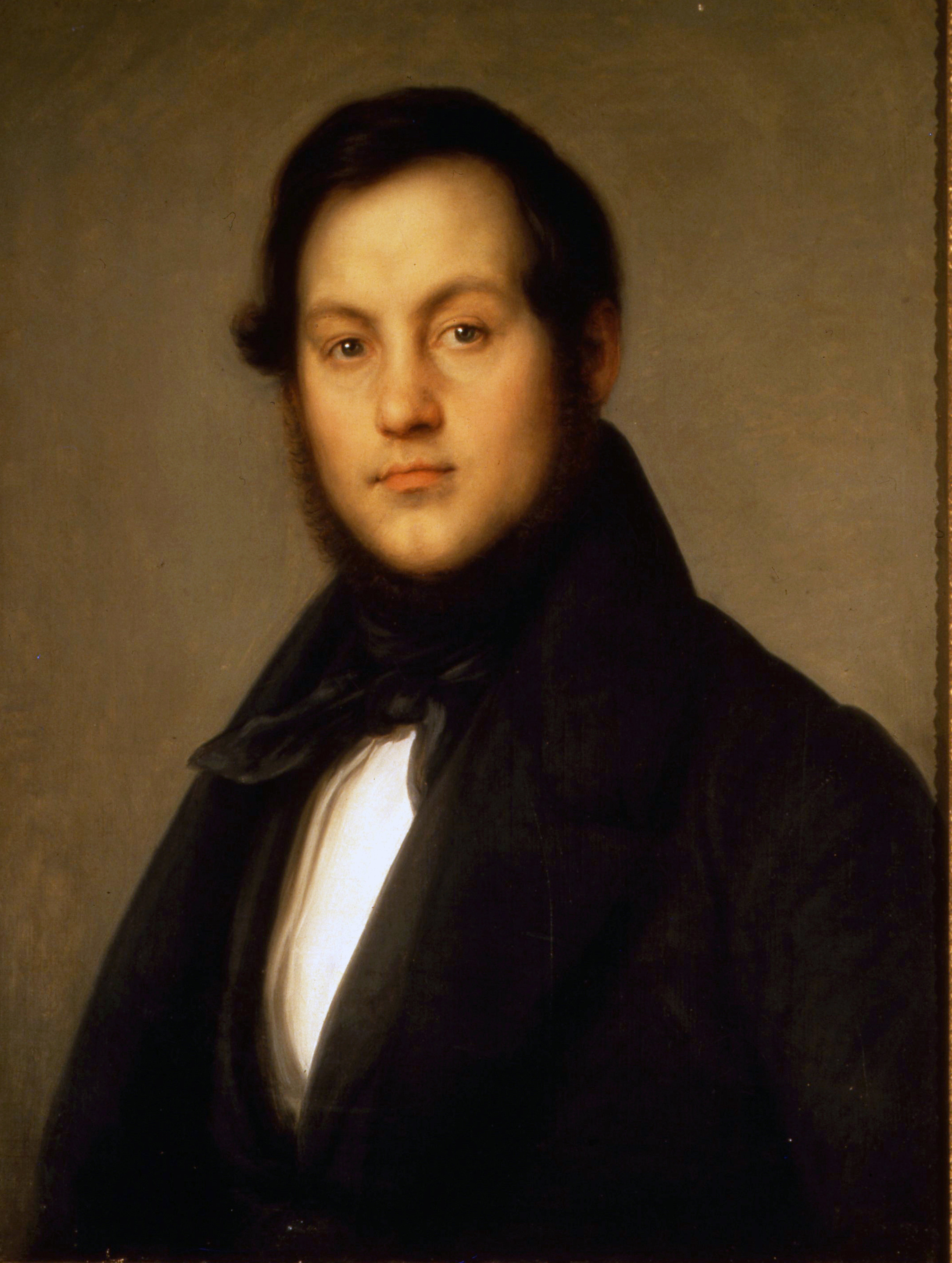 Ignazio Marini 1848